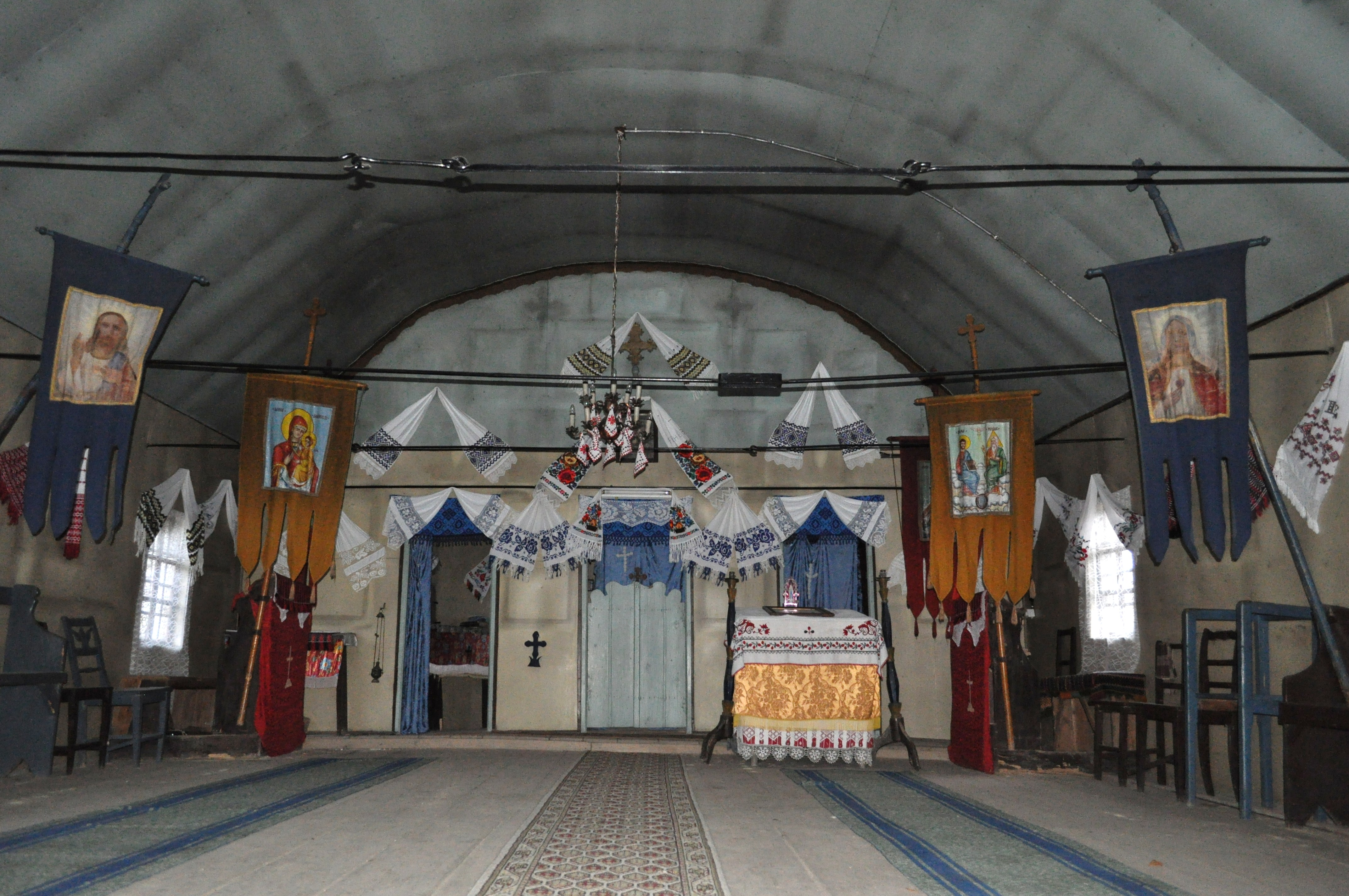 Wooden church in Bărăi, Cluj county, Romania